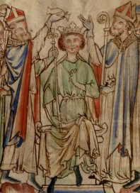 Edward the Confessor